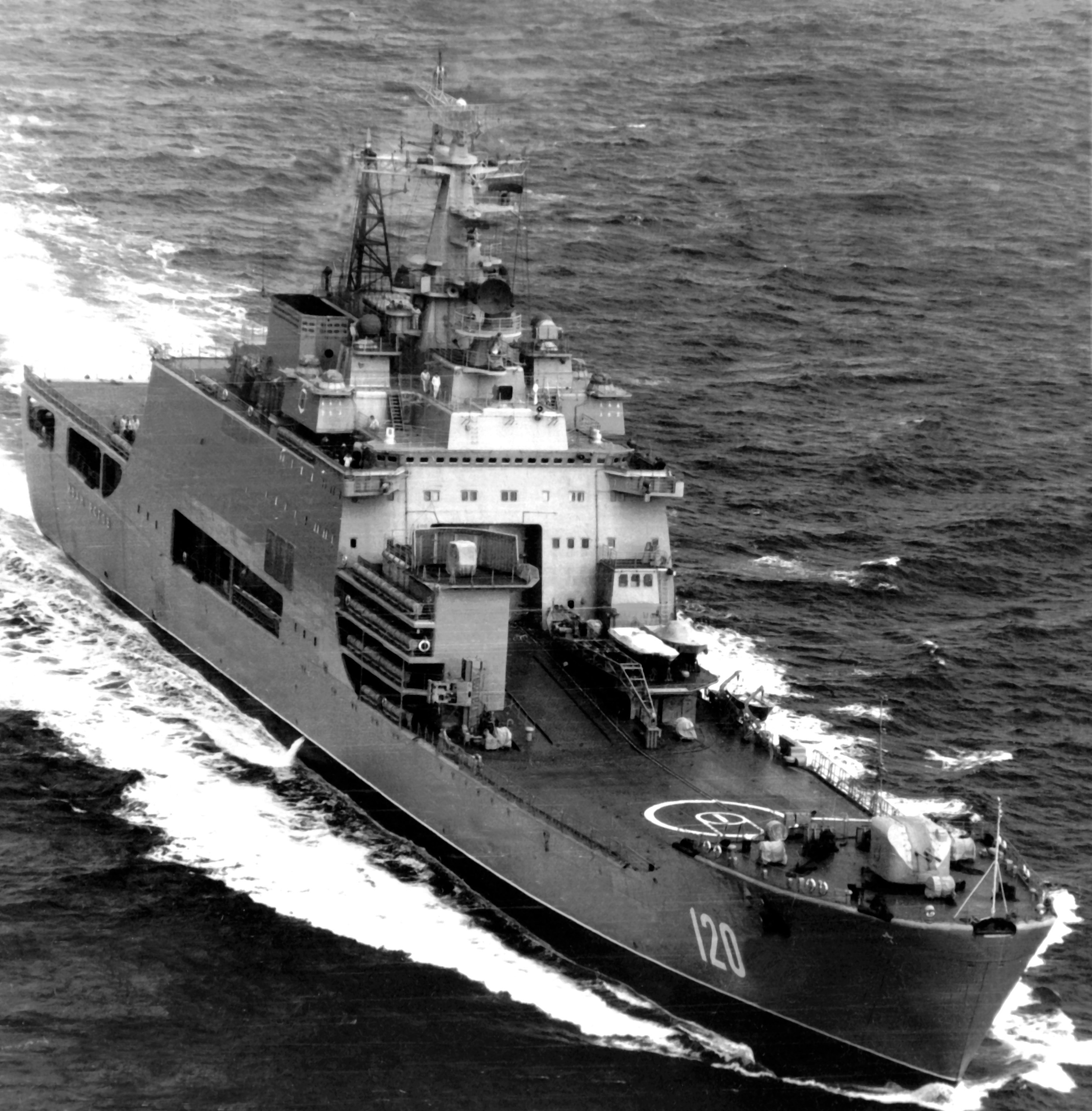 An aerial starboard bow view of the Soviet amphibious assault transport dock Ivan Rogov underway. Date Shot: 1 May 1982